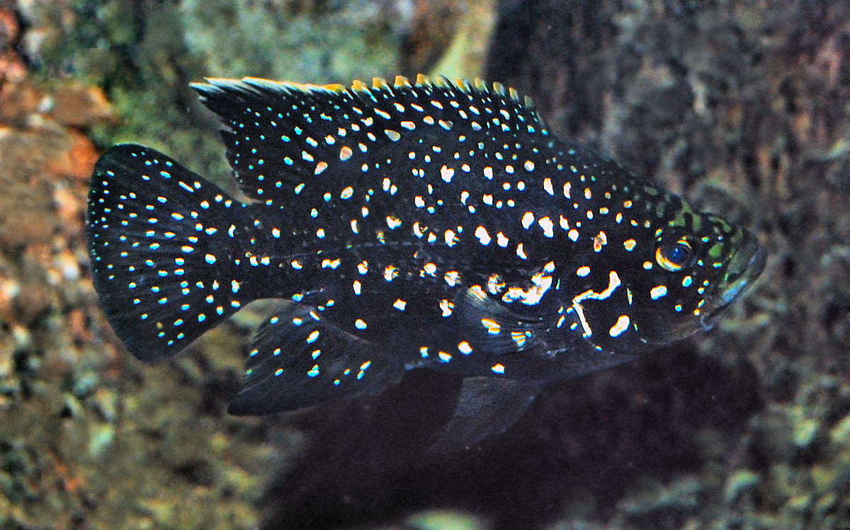 A primitive cichlid from Madagascar, Paratilapia polleni Bleeker, photographed at the Berlin Aquarium.